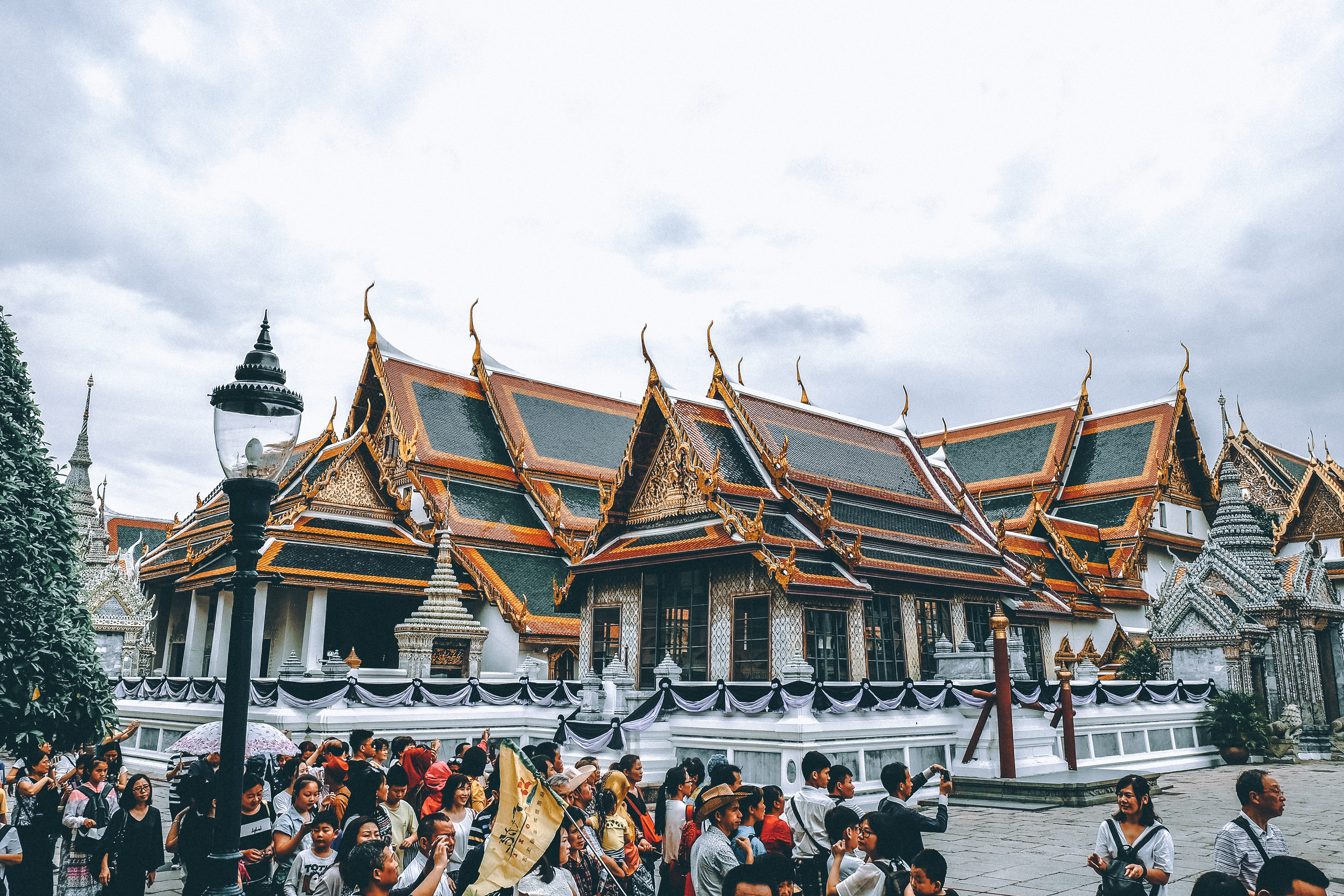 The Grand Palace, Bangkok, Thailand